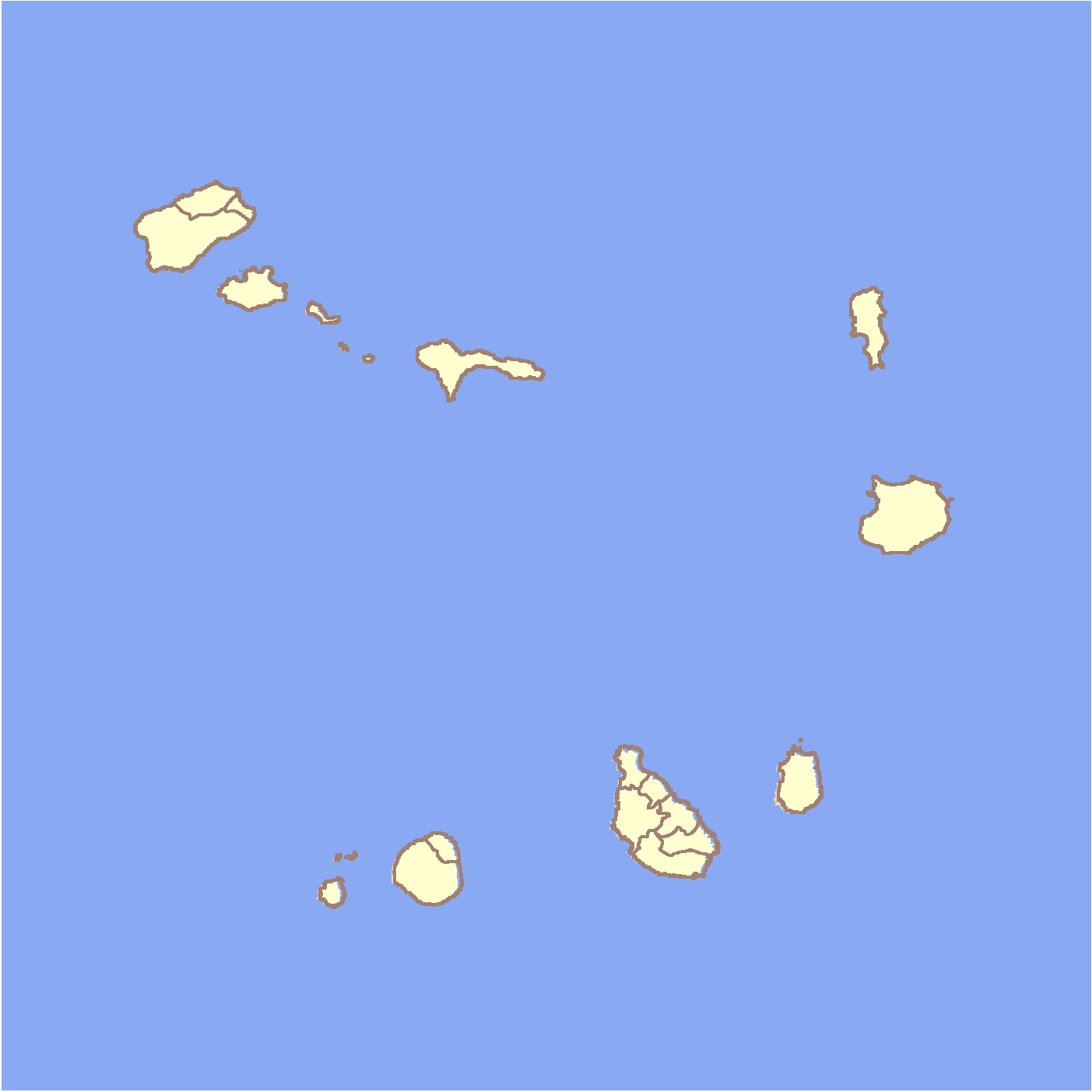 Location map of Cape Verde. Left:-25.8, bottom:14.2, right:-22.2, top:17.8